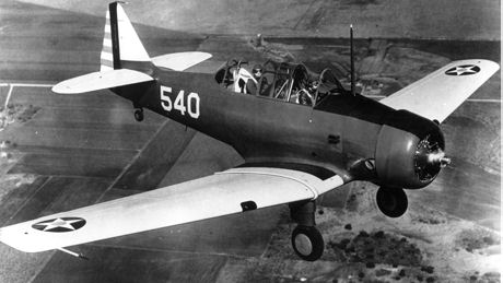 North American BT-14 (NA-58) which served as a basic trainer during the war years